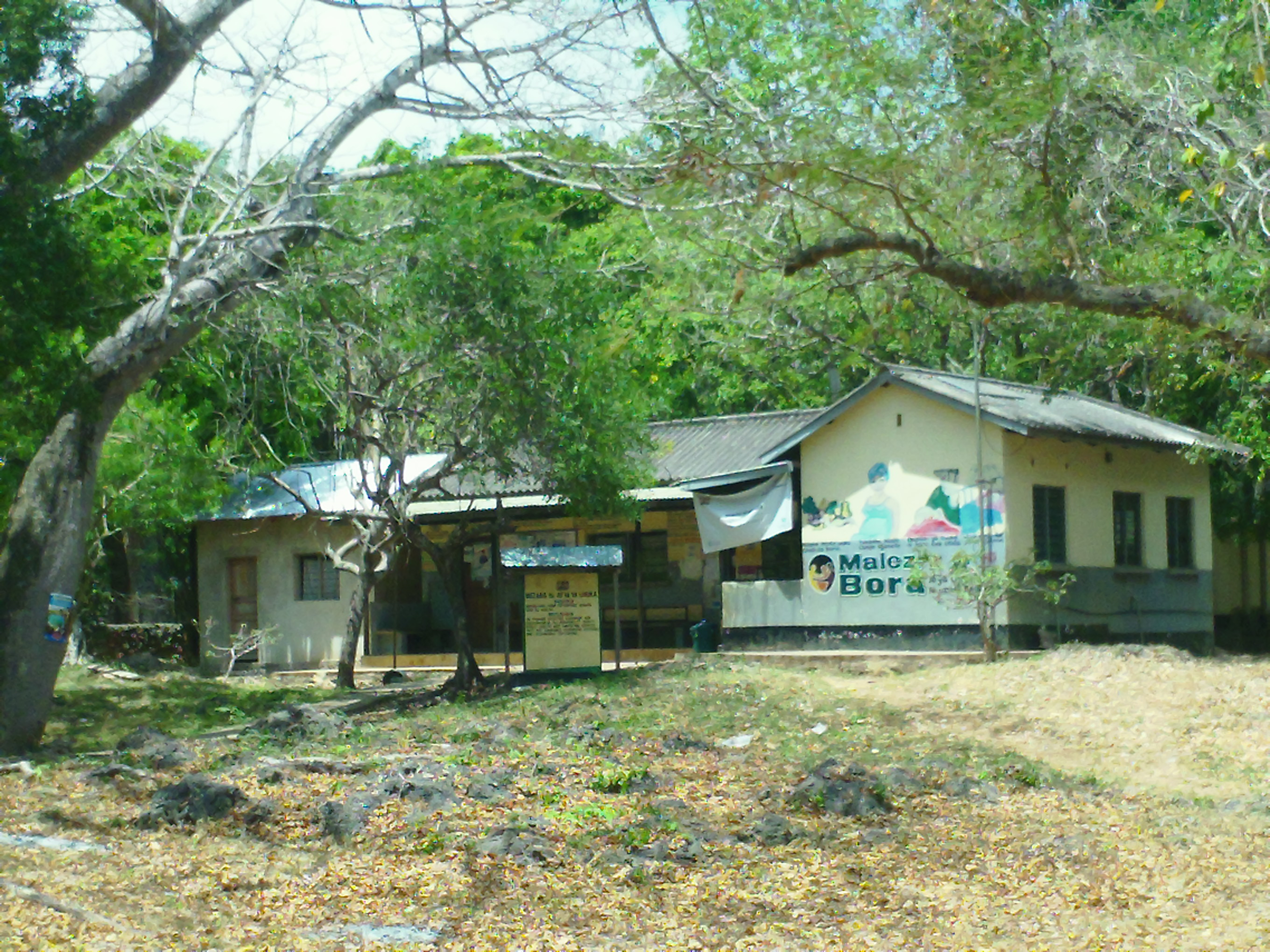 Shimoni Public Dispensary, where many members of SAFE Shimoni work & organize outreach events.